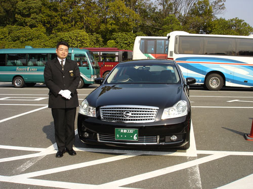 Chauffeur in Kyoto, Japan